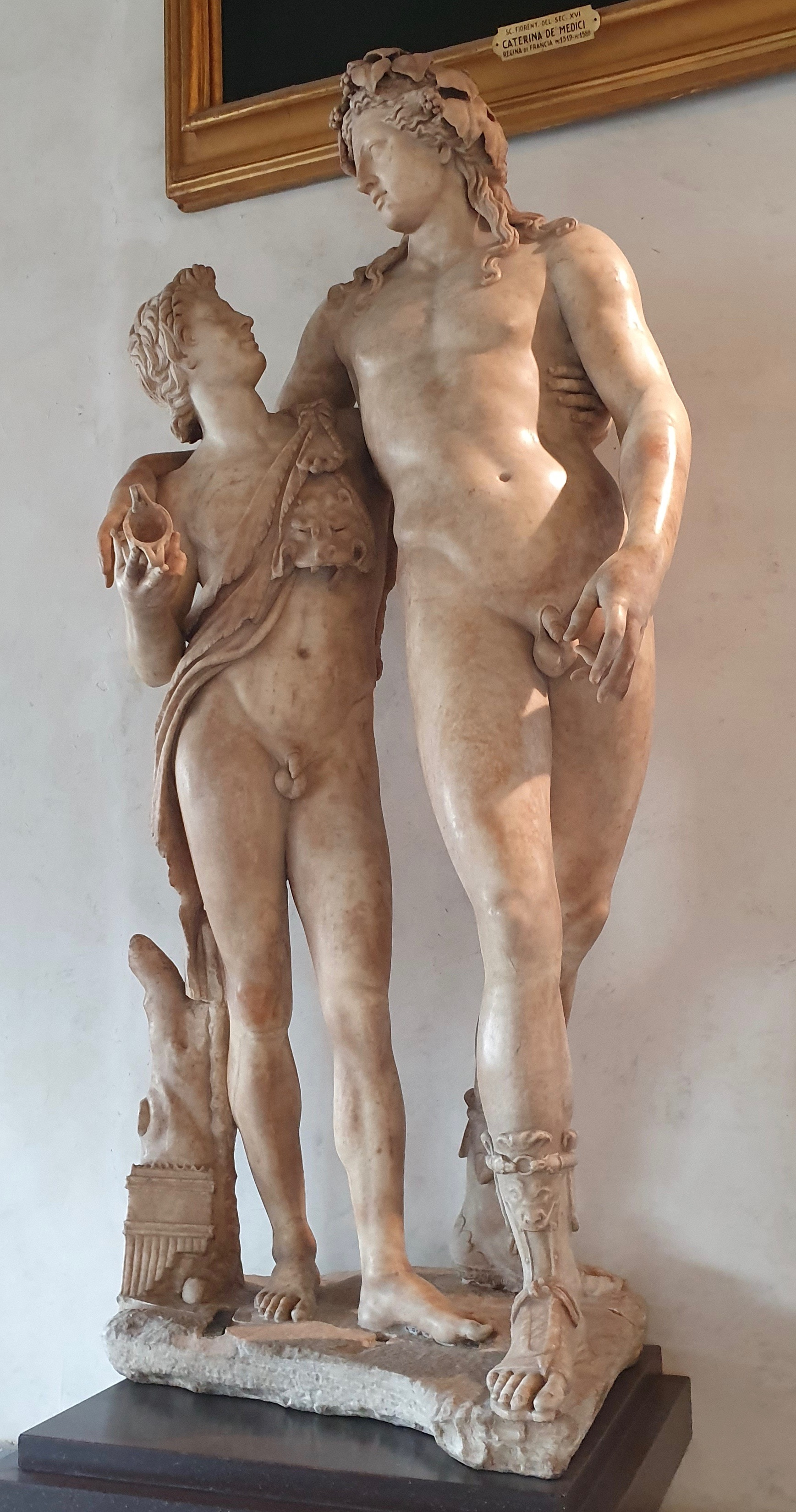 Group with Bacchus leaning on Satyr (sometimes identified as Ampelos) Depicted person: Bacchus – ancient Roman deity of wine Depicted person: Ampelos – deity